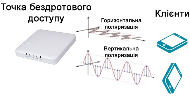 Polarization Diversity (BeamFlex+)